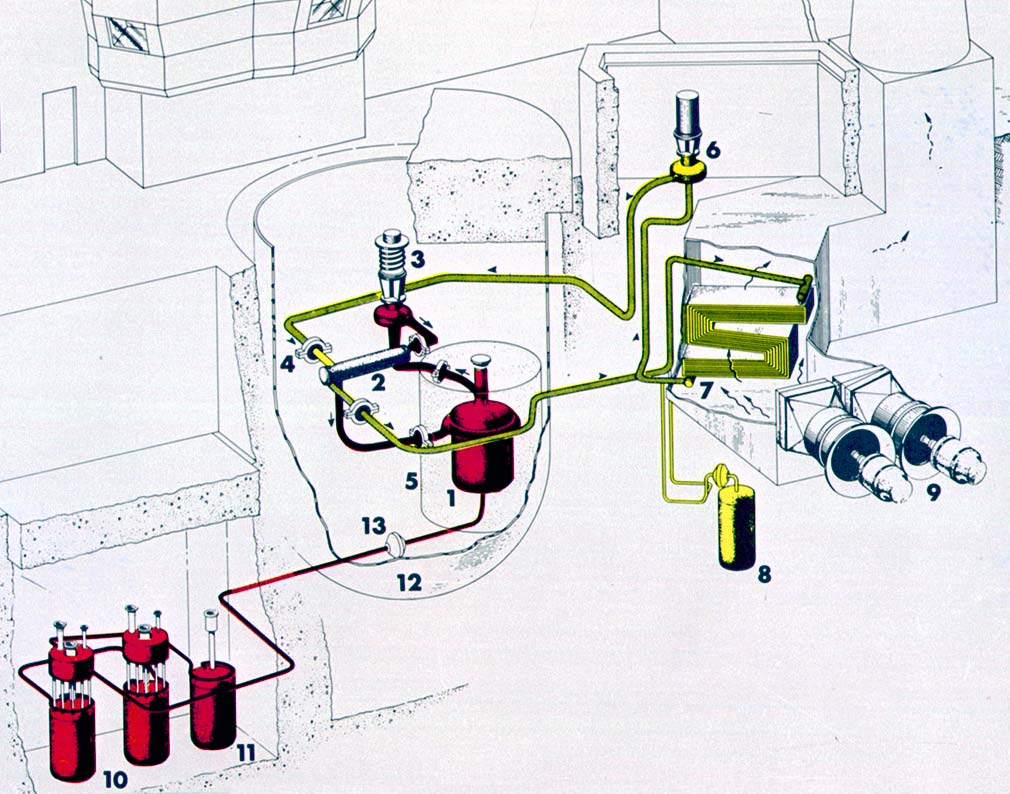 Diagram showing the internals of the Molten-Salt Reactor Experiment.